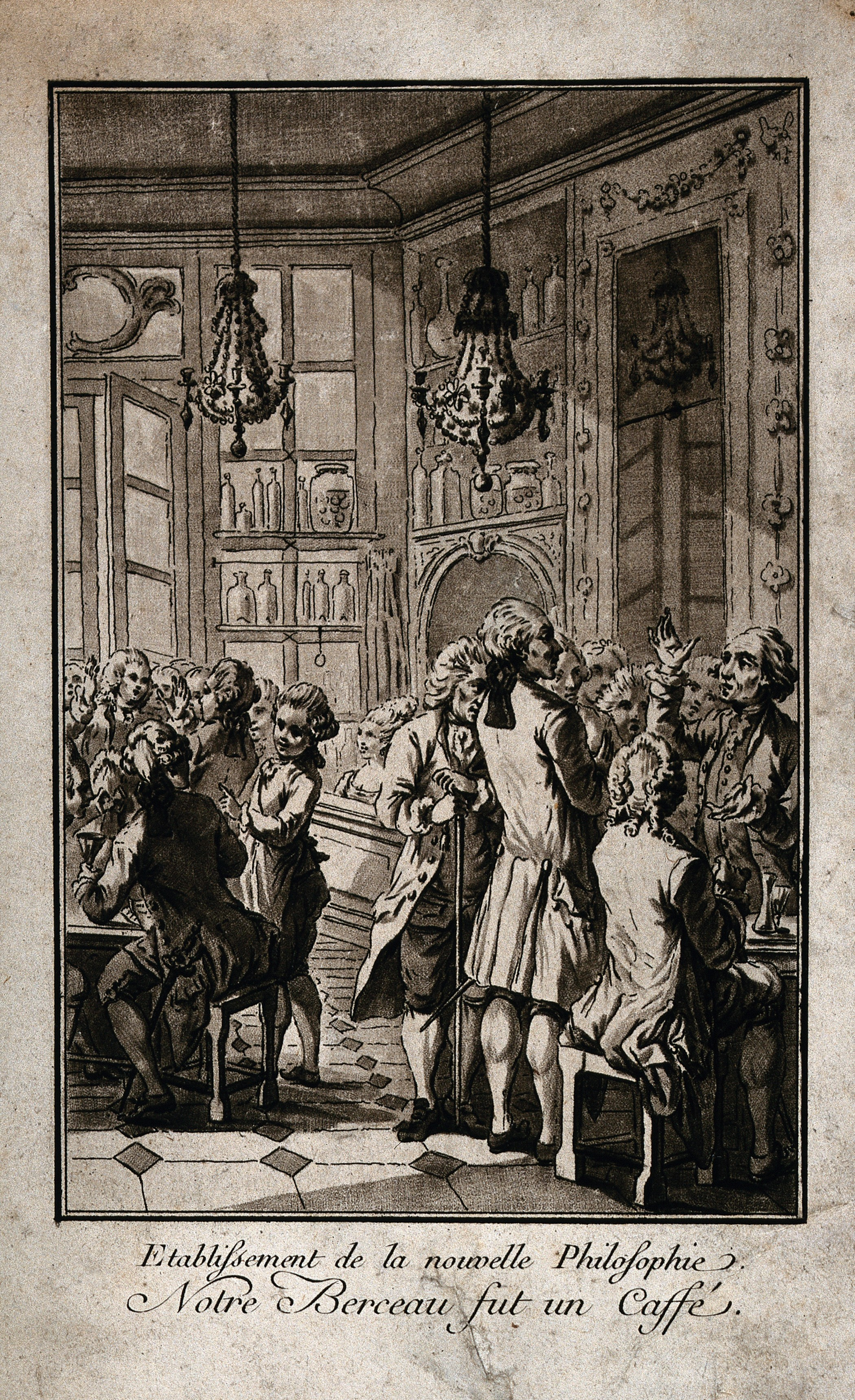 Café Procope, Paris: men and women chatting over drinks. Aquatint. Iconographic Collections